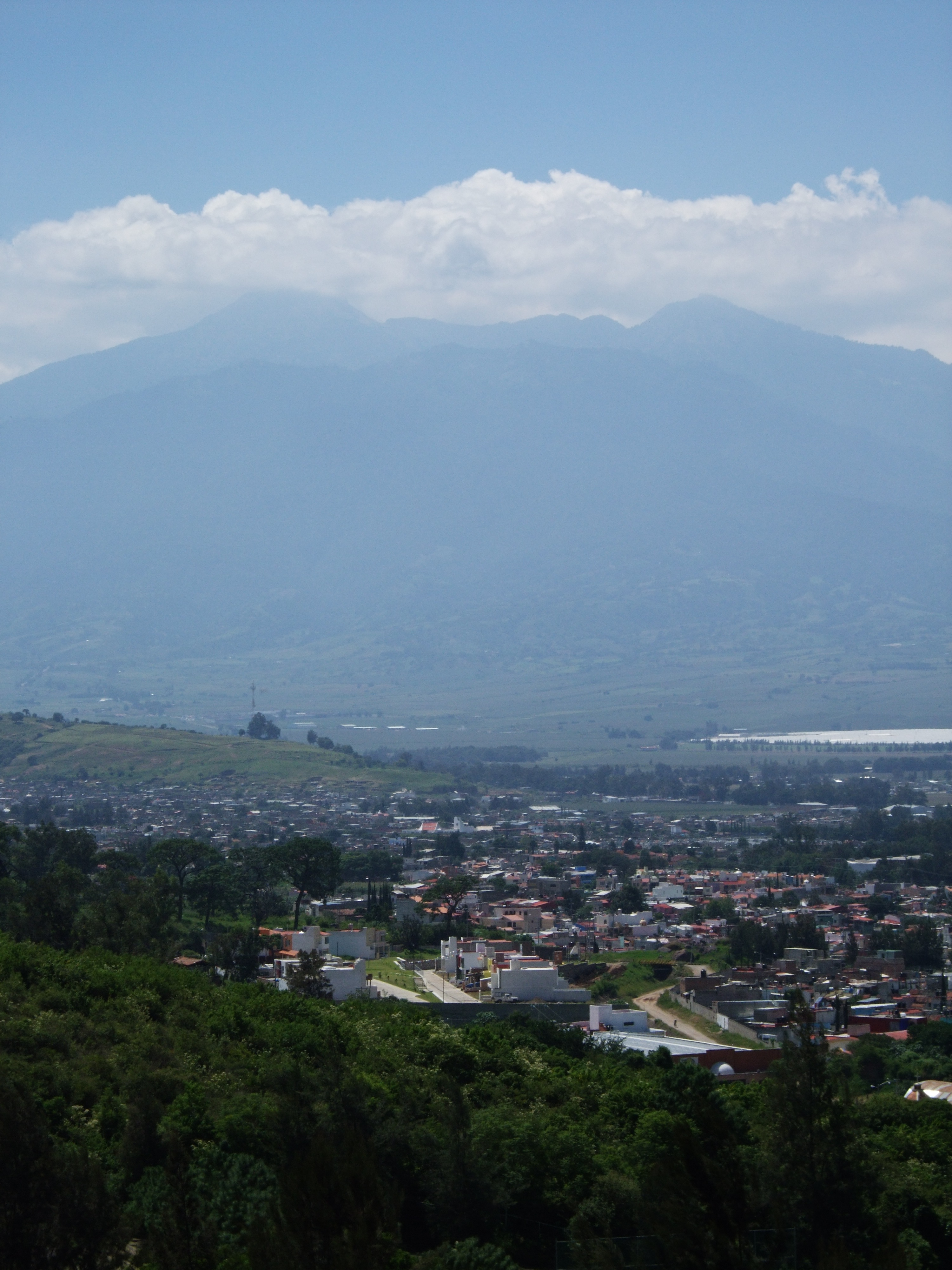 Volcano in Zapotlan El Grande